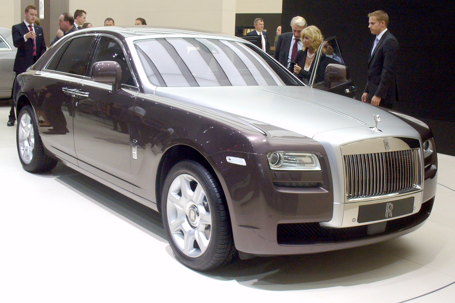 Rolls-Royce Ghost